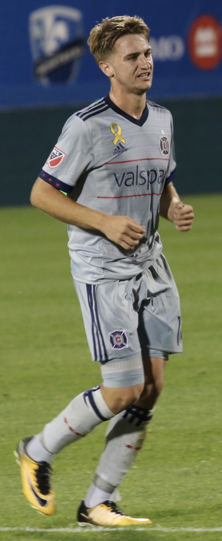 Mihailovic with Chicago Fire September 2017